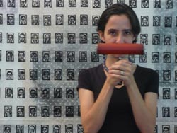 Anna Kurtycz in front of one of her works.